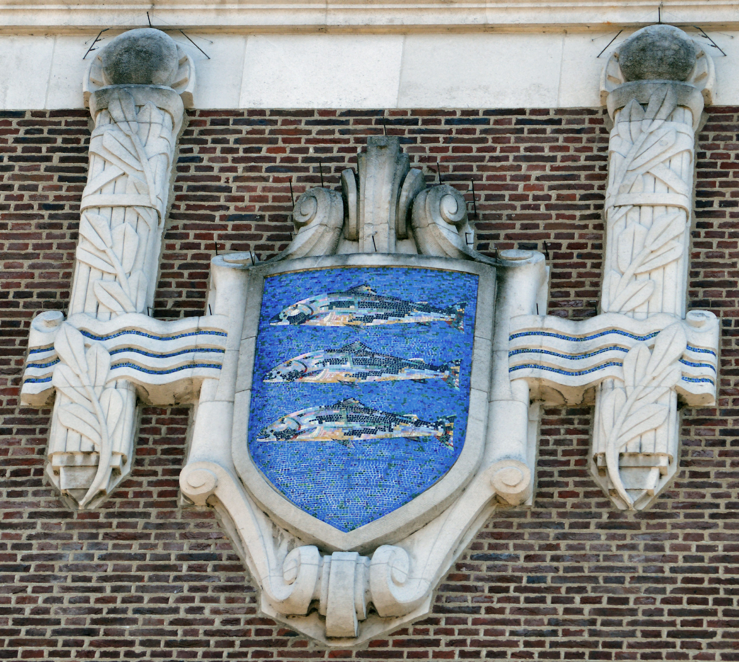 Kingston Guildhall. Royal Borough Kingston crest, with mosaic of three fishes emblem, stylised representation of the river, and two columns either side decorated with leaves and bindings.